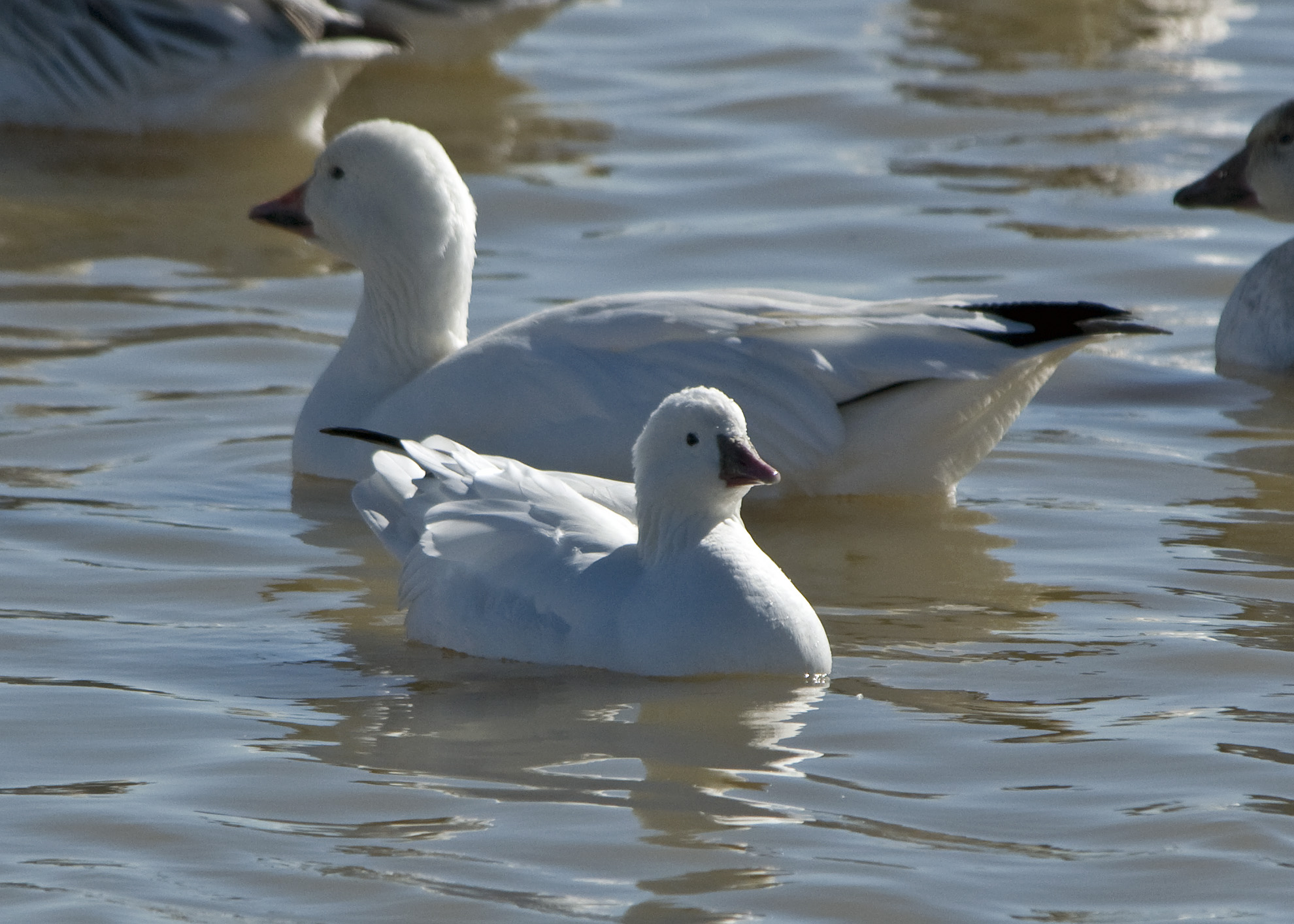 Comparison of Ross's Goose (front) with Snow Goose